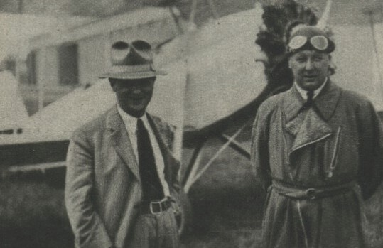 Pavel Beneš, Czech designer of airplanes (left), 1931